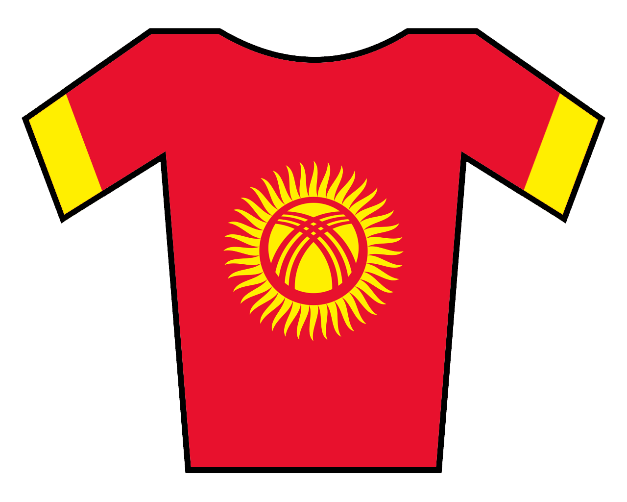 National champion cycling jersey of Kyrgyzstan